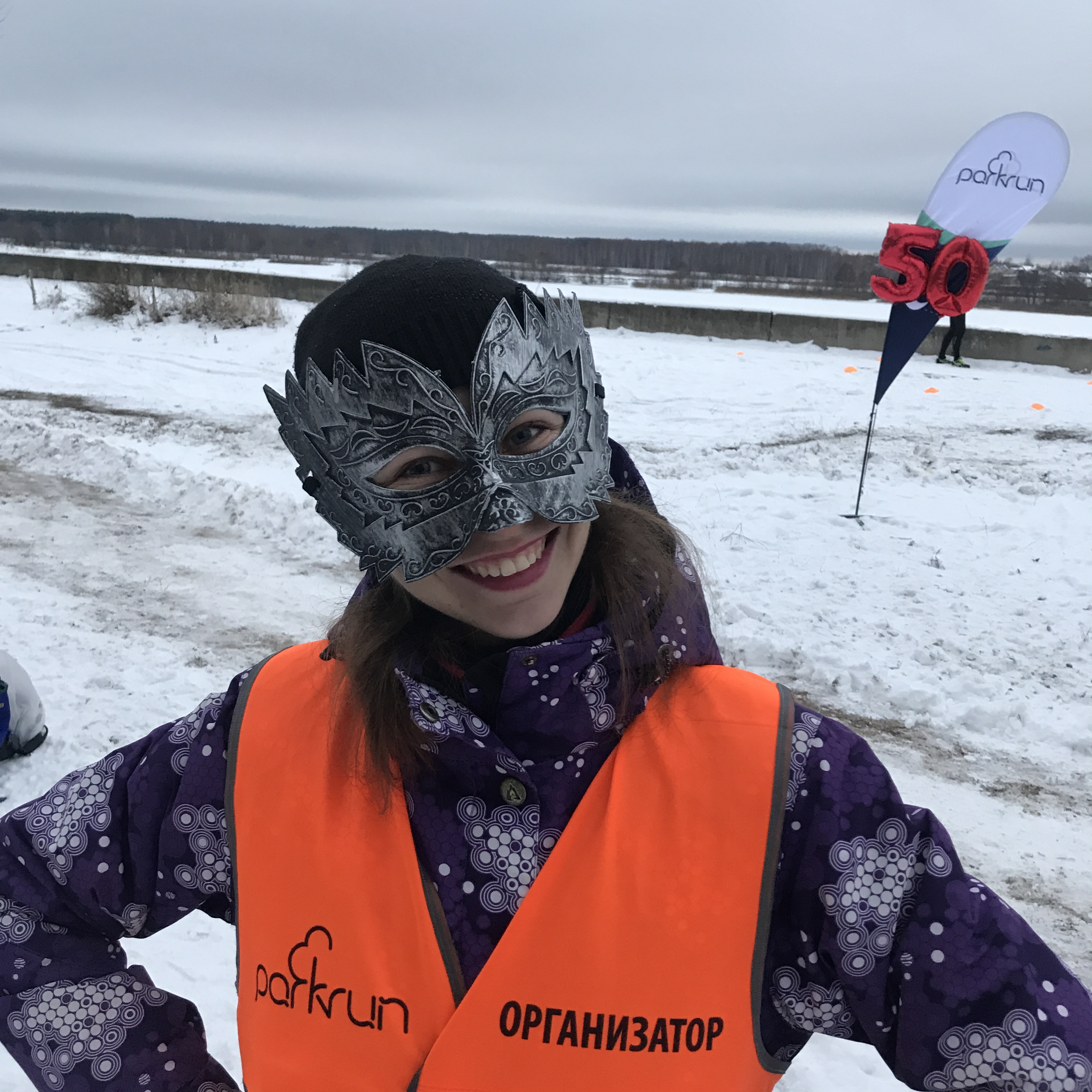 parkrun Kimry №50 — 08/12/2018